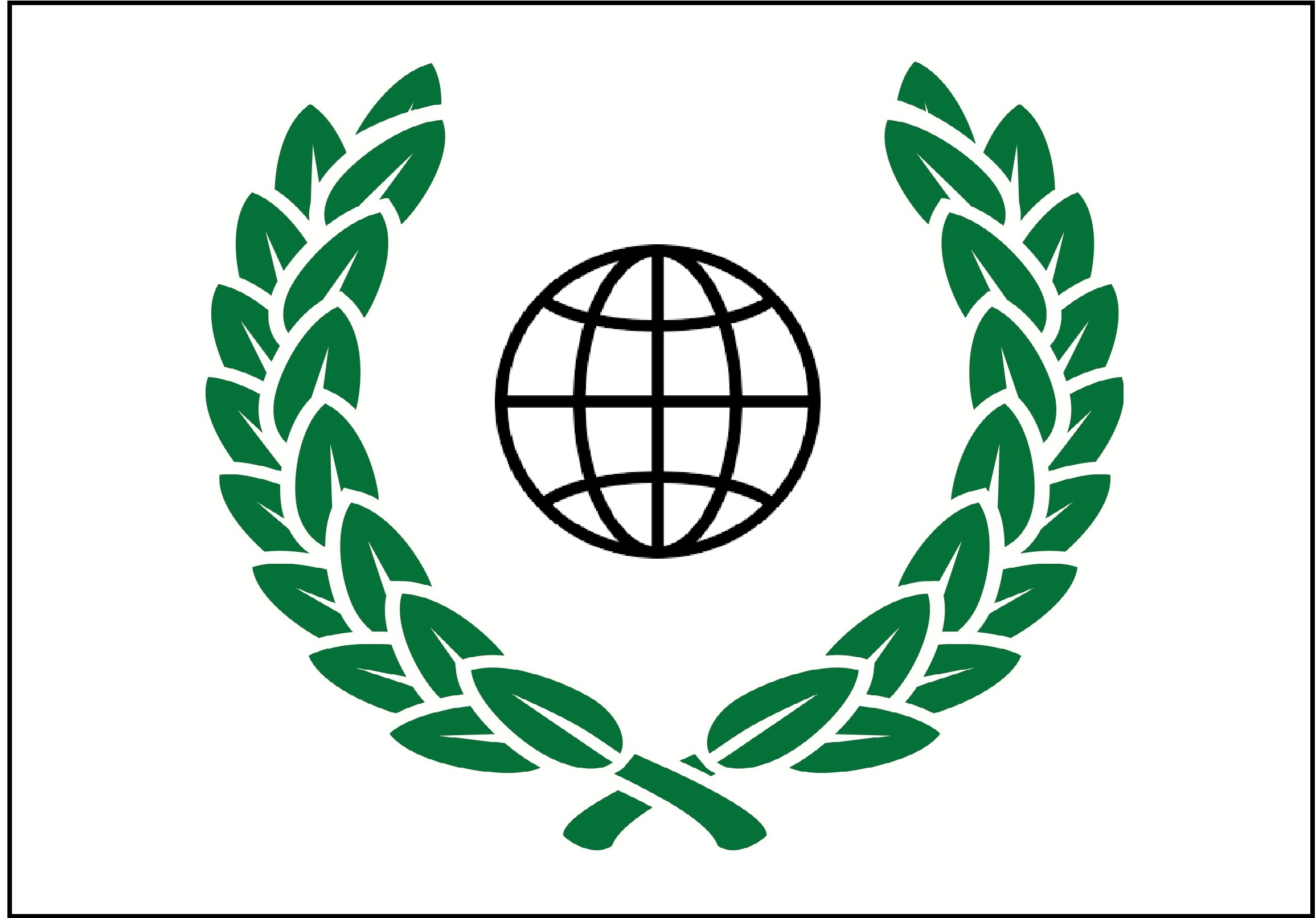 FLAG OF NO TO CHILD LABOR- CREACION SILVIO.A .FERNANDEZWITH HISTORICAL PRESENTATION OVERVIEW IN ALTA GRACIA -CORDOBA -ARGENTINA IN THE YEAR 2019, ON THE PREDIO DEL GREMIO UOLRA IN JOINT WITH CESAHYCAG CENTER. IN THE YEAR 2020 THE AUTHOR ADDED A HERALDIC TAPE TO THE FLAG WITH THE SUBJECT "NOT TO CHILD LABOR".